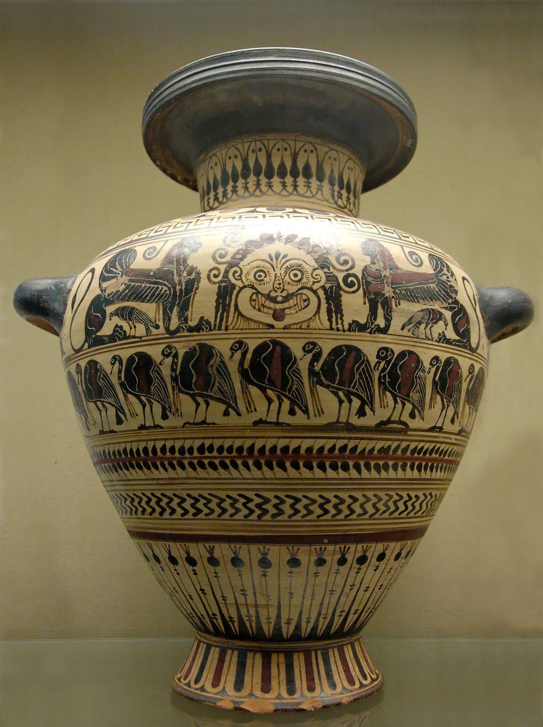 Lakonian black-figured hydria with a gorgon's head, sphinxes and cranes, ca. 540–530 BC. From Vulci.